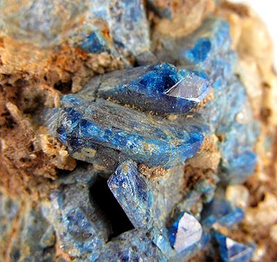 Lazulite Locality: Färbergraben, Werfen, Salzburg, Austria (Locality at ) Size: small cabinet, 8.9 x 5.3 x 3.1 cm Lazulite Beautiful gemmy blue crystals of lazulite to 1.2 cm on a quartz matrix. These crystals represent some of the most gemmy lazulite that we have seen outside of the Yukon. These lazulites are very historic, having been collected many years ago. Many of the crystals are terminated and have rich gem areas with a color blue not routinely seen in the mineral world. Some damage present on the piece. Former collection (?) label comes with piece.